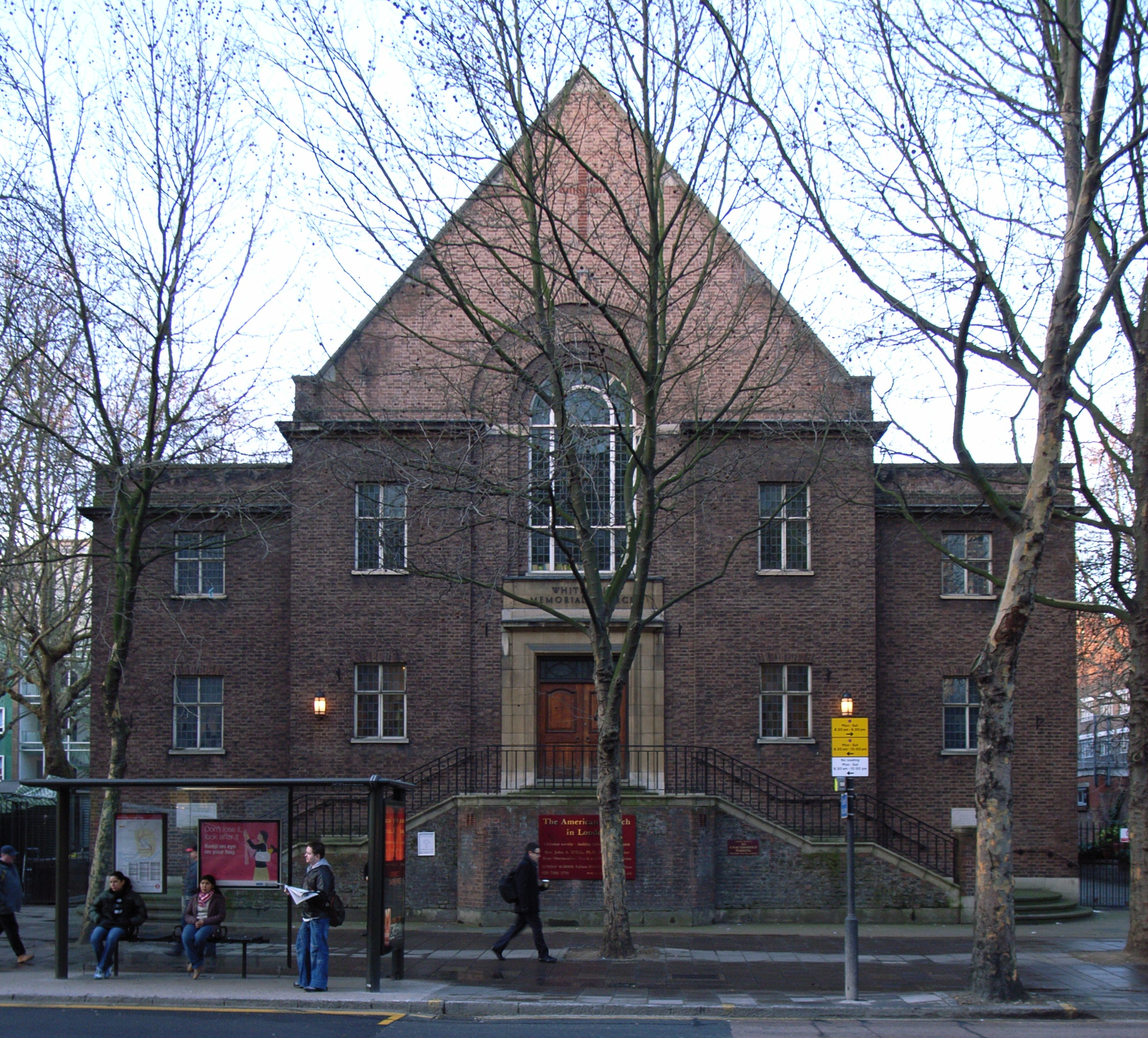 American Church (Whitfield Memorial Church) 1957, Tottenham Court Road, London. Built on the site of the church of the 18th century preacher, George Whitfield.